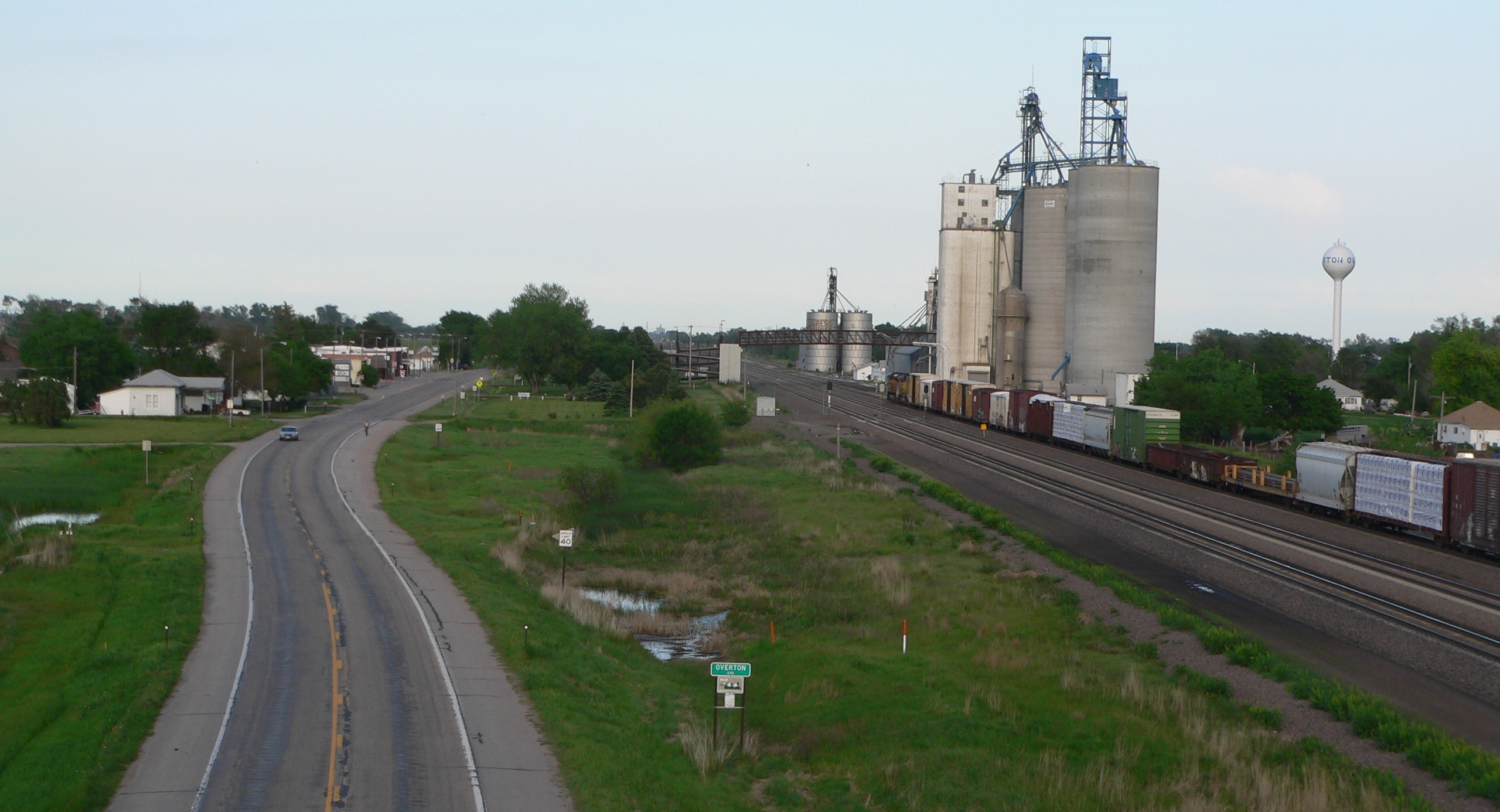 Overton, Nebraska; looking eastward from overpass whereon county road 444 crosses U.S. Highway 30 and the Union Pacific tracks.